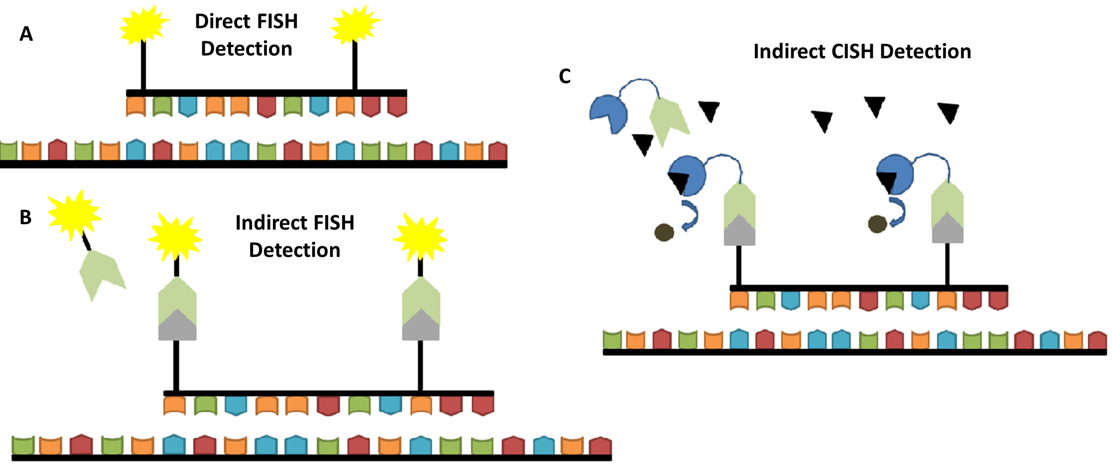 Fluorescence in situ hybridization versus chromogenic in situ hybridization